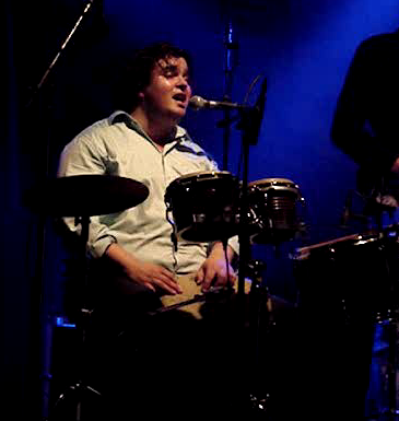 Zarkus Poussa playing perkussions with Anna-Mari kähärän Orkesteri at Jyväskylän Kesä festival in 14th July 2007